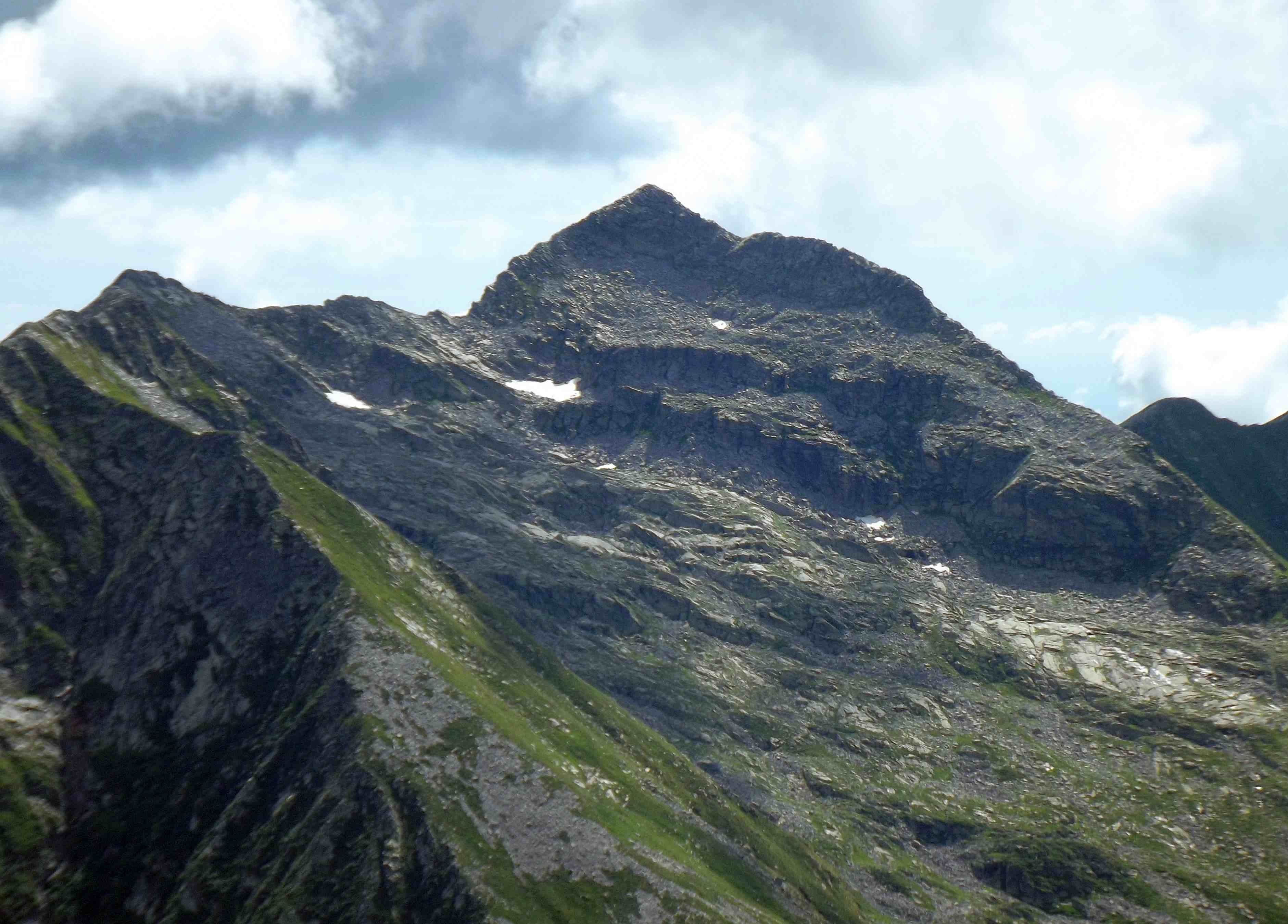 Mount Bo (Pennine Alps, BI) as seen from punta Lazoney